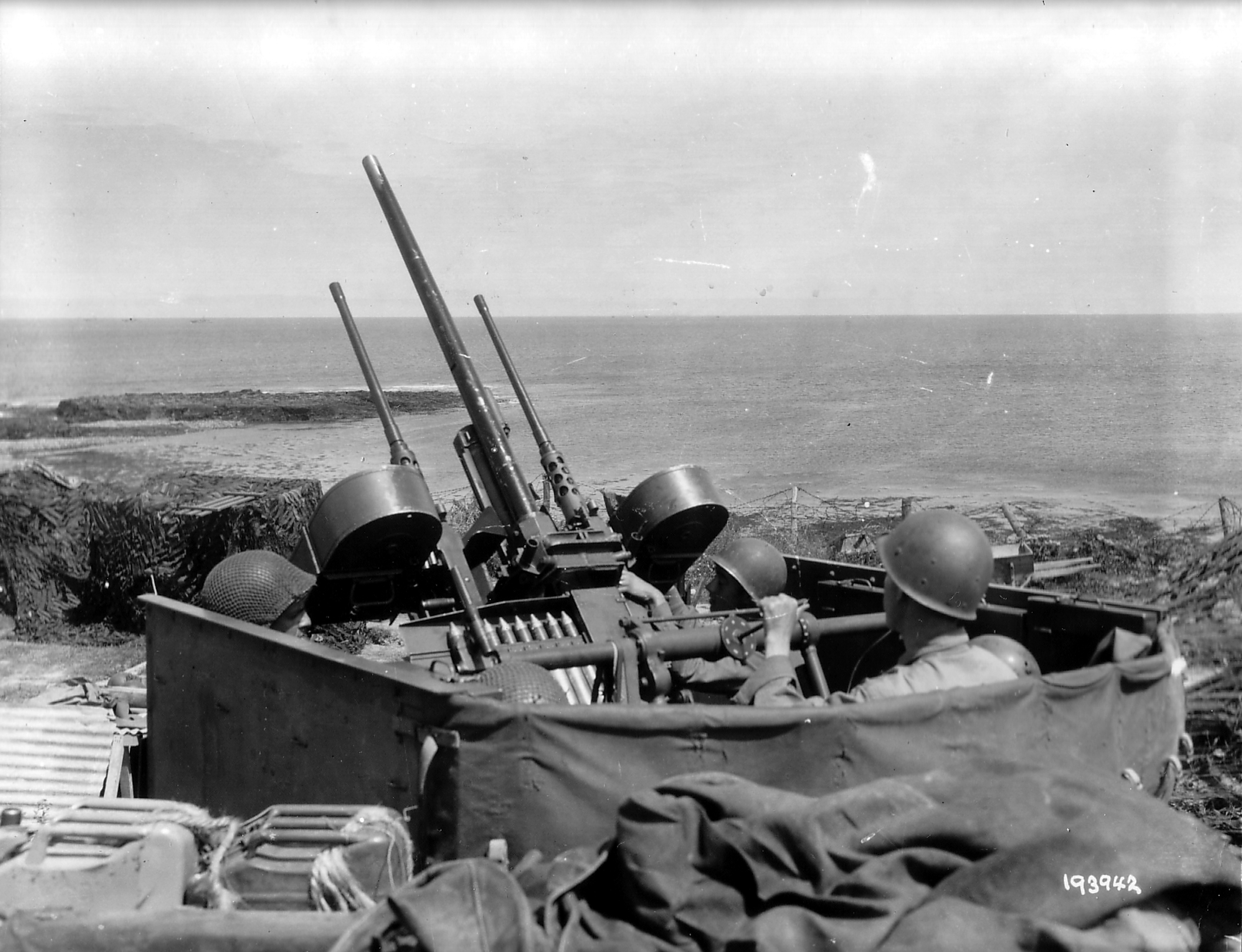 A M15 Halftrack in Normandy.